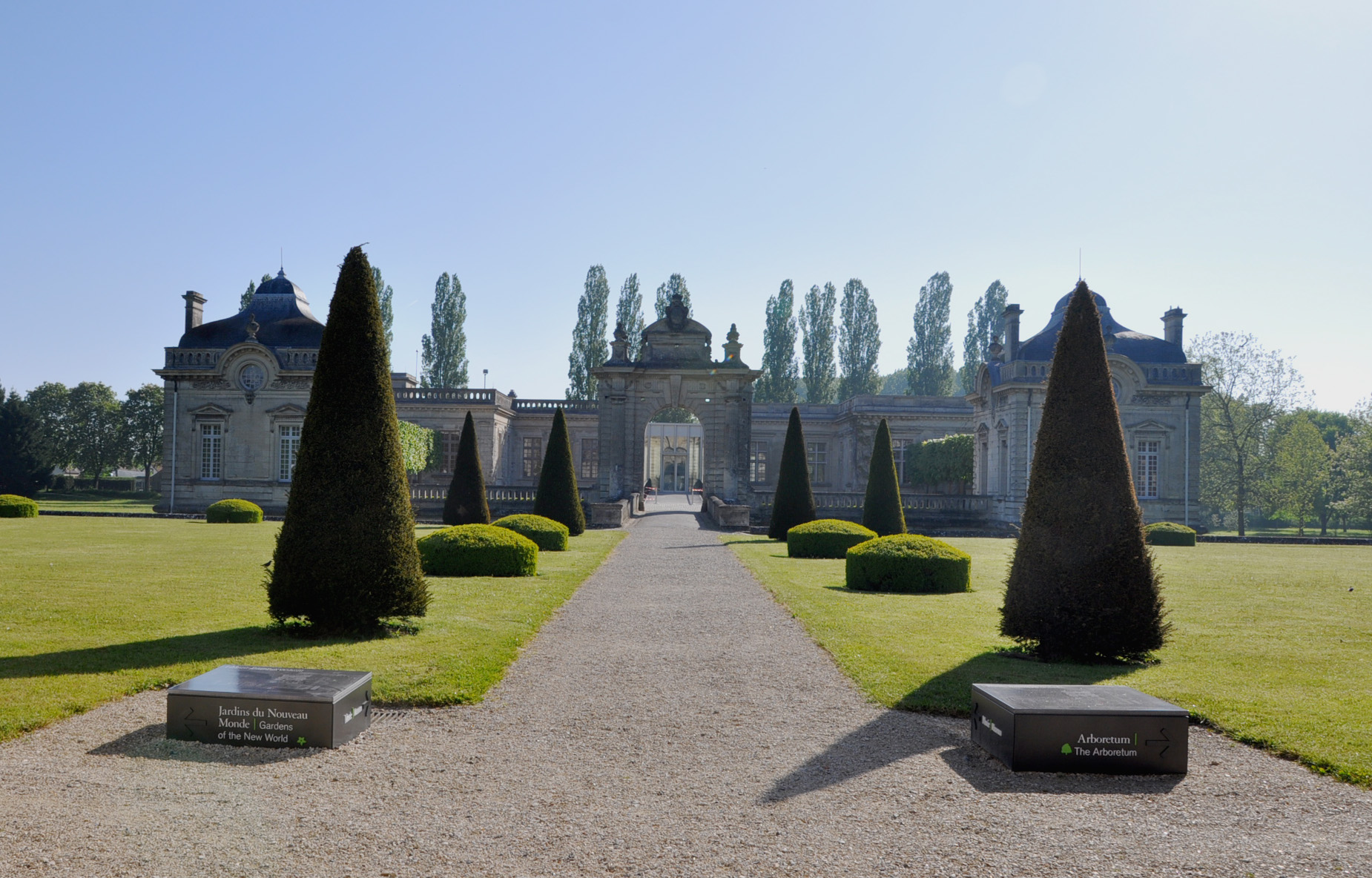 Château de Blérancourt